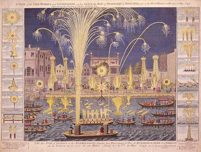 A VIEW of the FIRE-WORKES and ILLUMINATIONS at his GRACE the Duke of RICHMOND'S at WHITEHALL and on the River Thames on Monday 15 May 1749. Performed by the direction of Charles Fredrick Esq. Hand coloured etching showing the Royal Fire-workes and Illuminations in Whitehall and on the River Thames on Monday 15 May 1749. The occasion for which George Frideric Handel composed his Music for the Royal Fireworks. The firework display was for the benefit of King George II of Great Britain to celebrate the signing of the treaty at Aix la Chapelle in 1748 marking the end of the War of Austrian Succession. Unfortunately, during the display, one of the fireworks landed on the pavilion of the Temple of Peace, igniting the several thousand fireworks inside and killing three spectators.